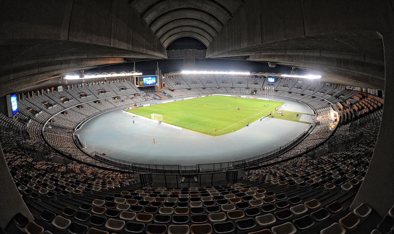 Zayed Sports City Stadium in Abu Dhabi, United Arab Emirates